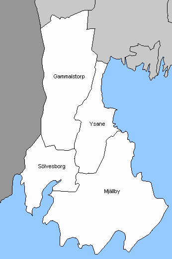 Old municipalities in Sölvesborg